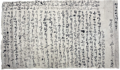 A letter dug out from Lee-eung-tae's tomb in 1998.